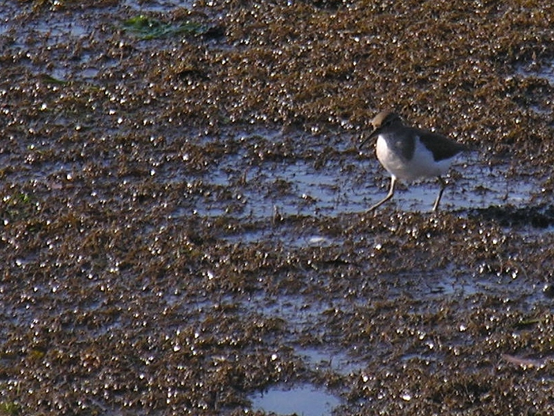 Actitis hypoleucos